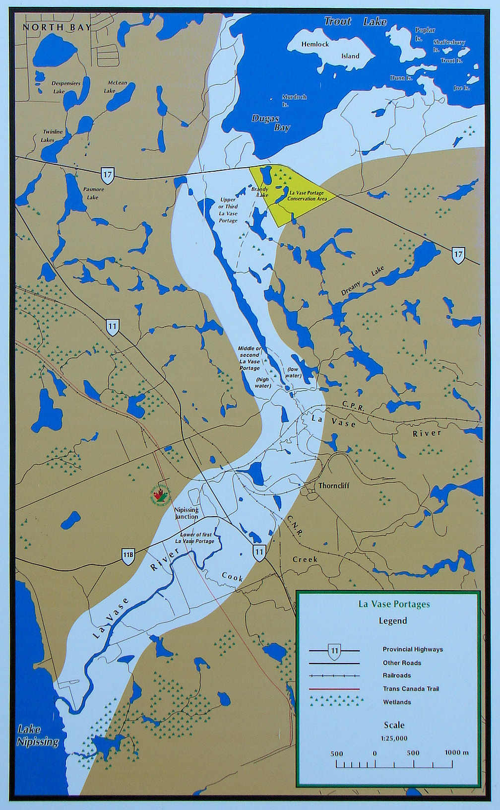 Map of La Vase Portages, North Bay, Ontario, Canada.